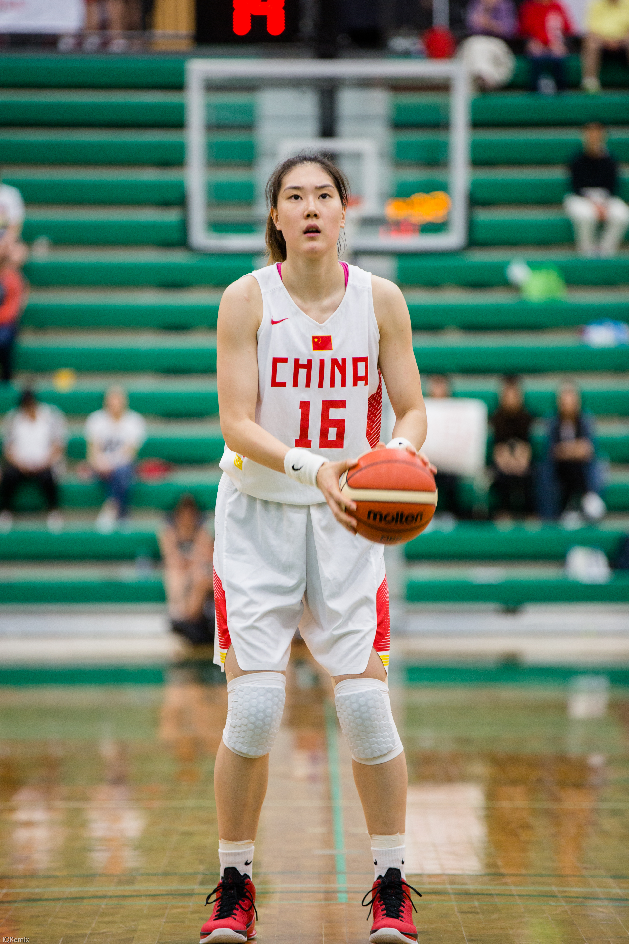 Three-game exhibition series between Canada and China